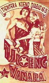 Poster for the 1941 film Tjioeng Wanara